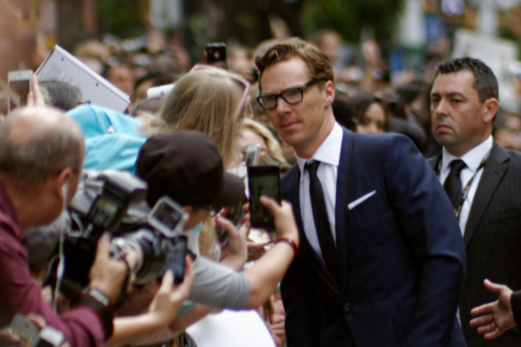 Benedict Cumberbatch with fans at the 2014 Toronto International Film Festival